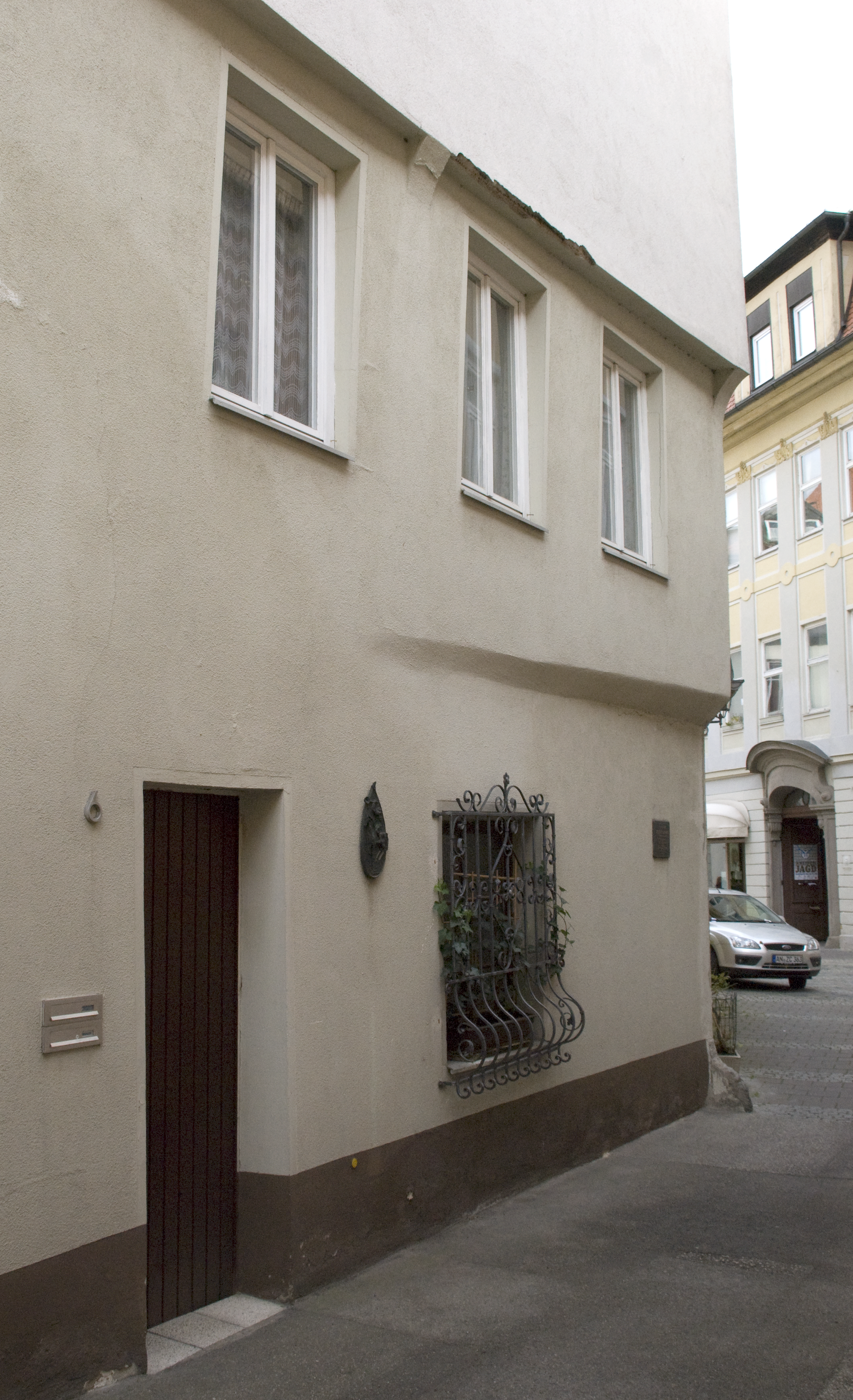 Kronenstrasse 6 in Ansbach, Germany. Birthplace of Robert Limpert (1925-1945).